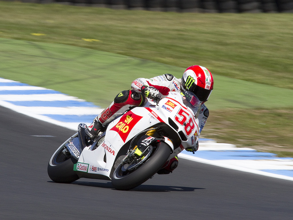 Marco Simoncelli at Phillip Island, 2011. One week before his death.